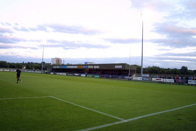 The Main Stand at Court Place Farm